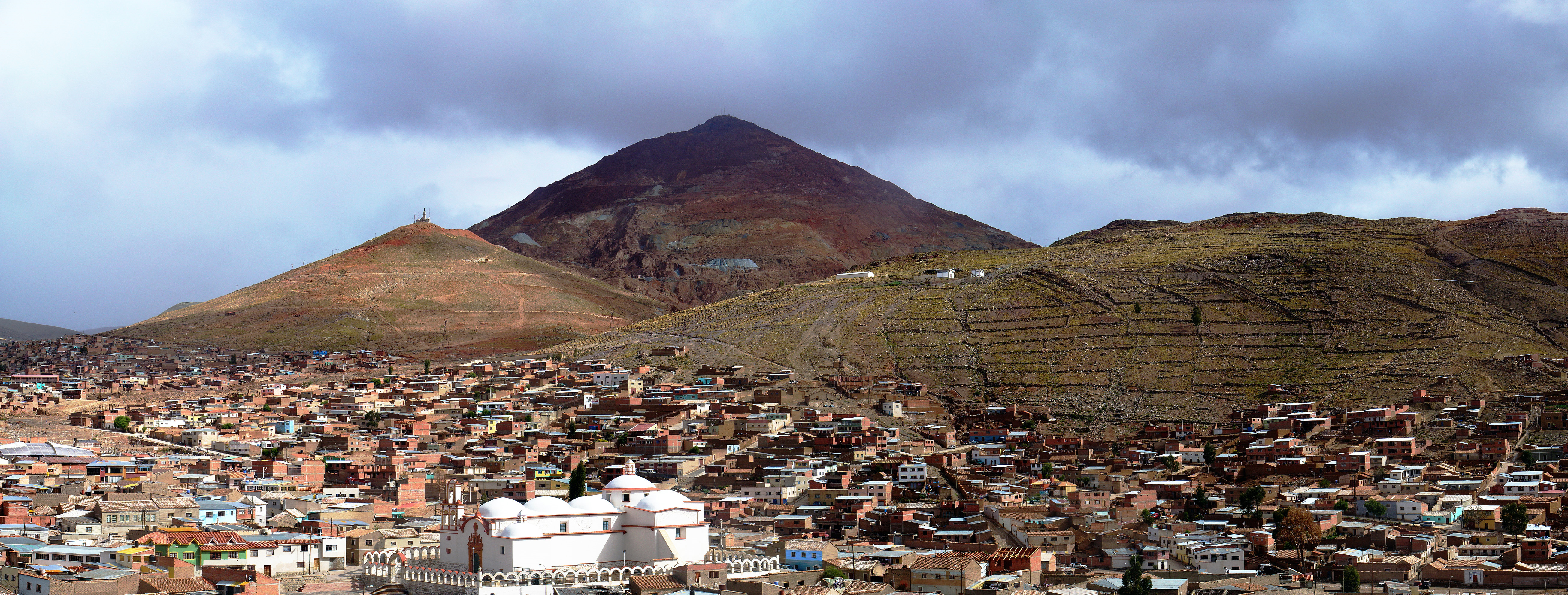 Please, have this description accessible to all by translating it in different languages.